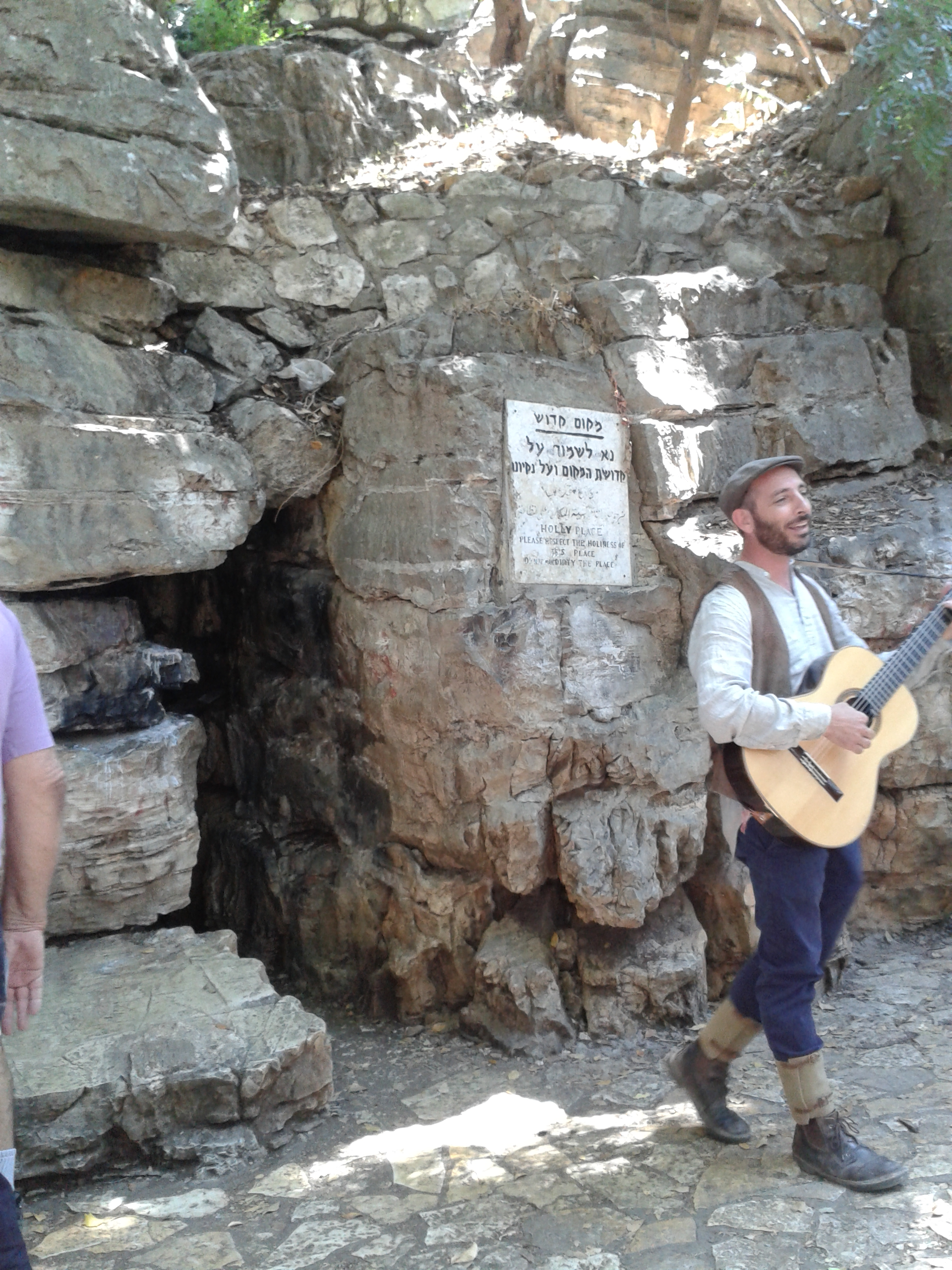 Rashbi's cave in Pekiin